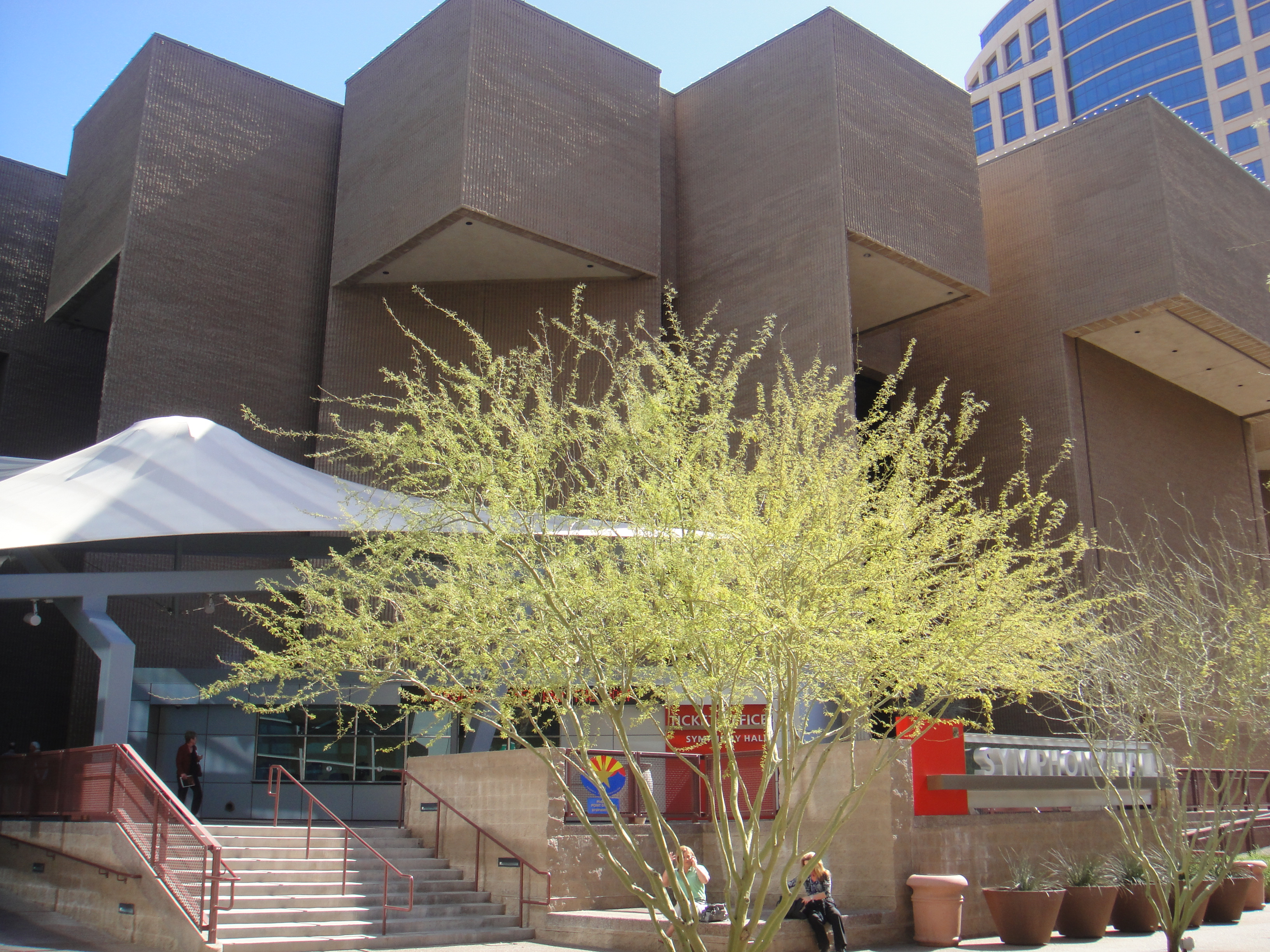 The west ticket office and entrance to the Phoenix Symphony Hall in downtown Phoenix, Arizona